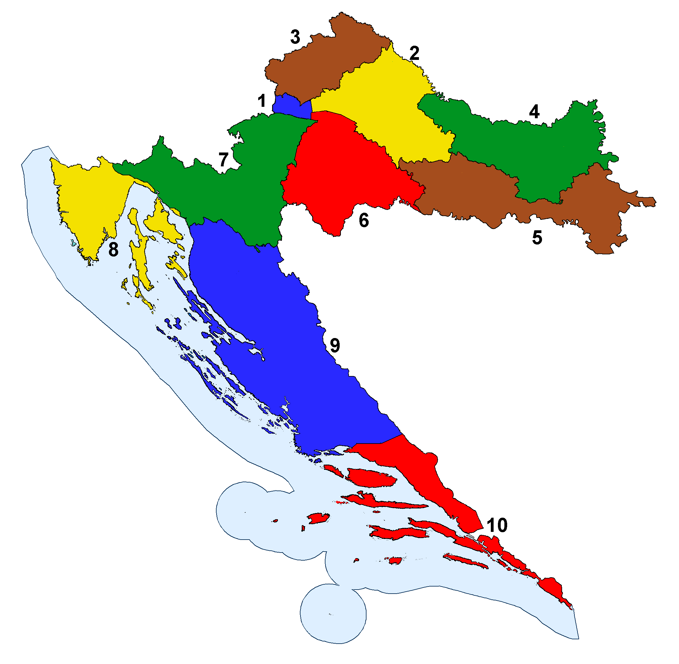 Croatia: Election districts under the 1999 law